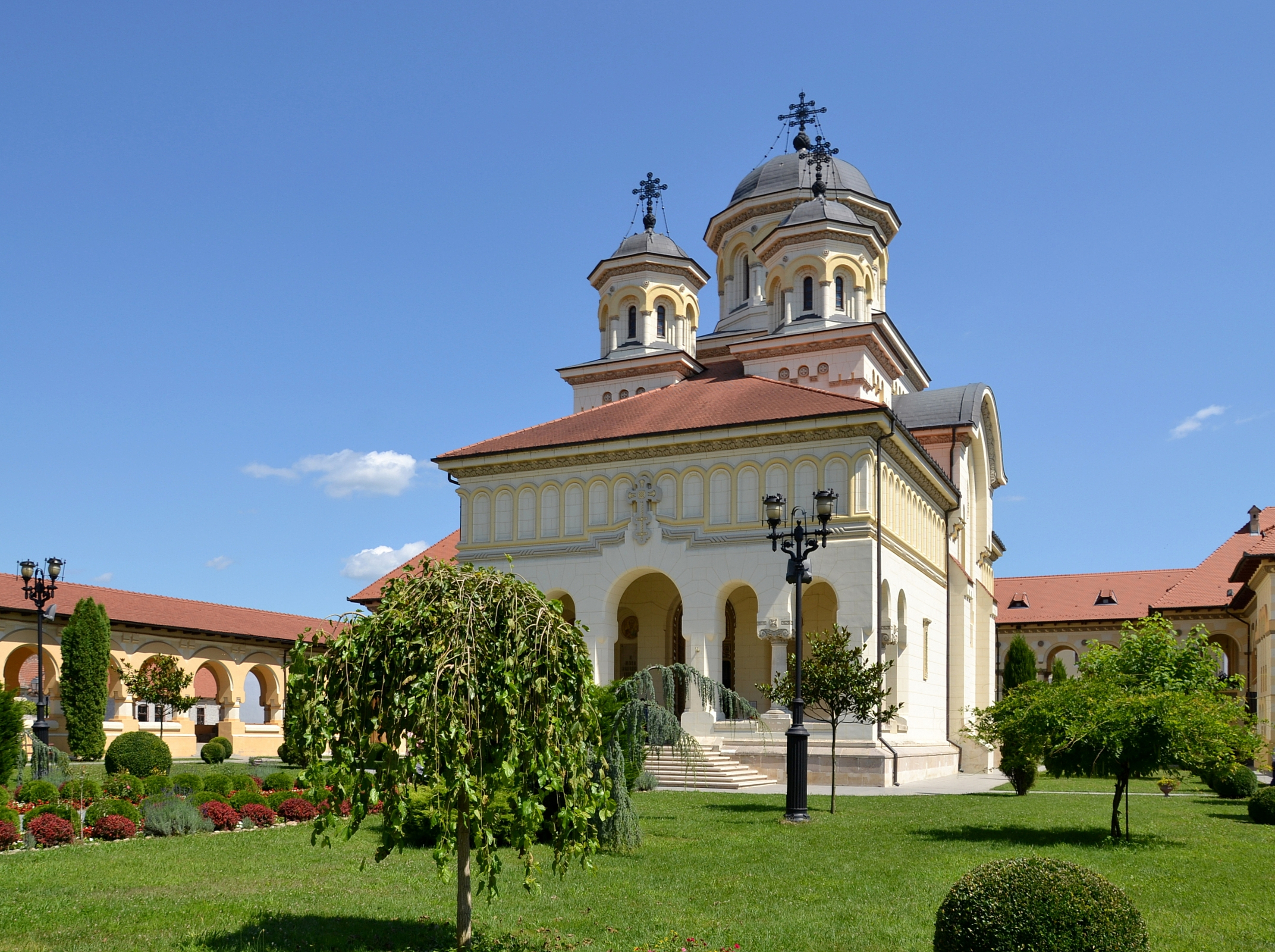 Alba Iulia (Gyulafehérvár, Karlsburg), Romania - Orthodox Cathedral